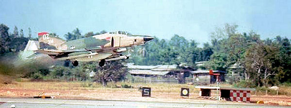 RF-4C of the 14th Tactical Recon Squadron/432 TR Wing - Udorn Royal Thai Air Force Base.